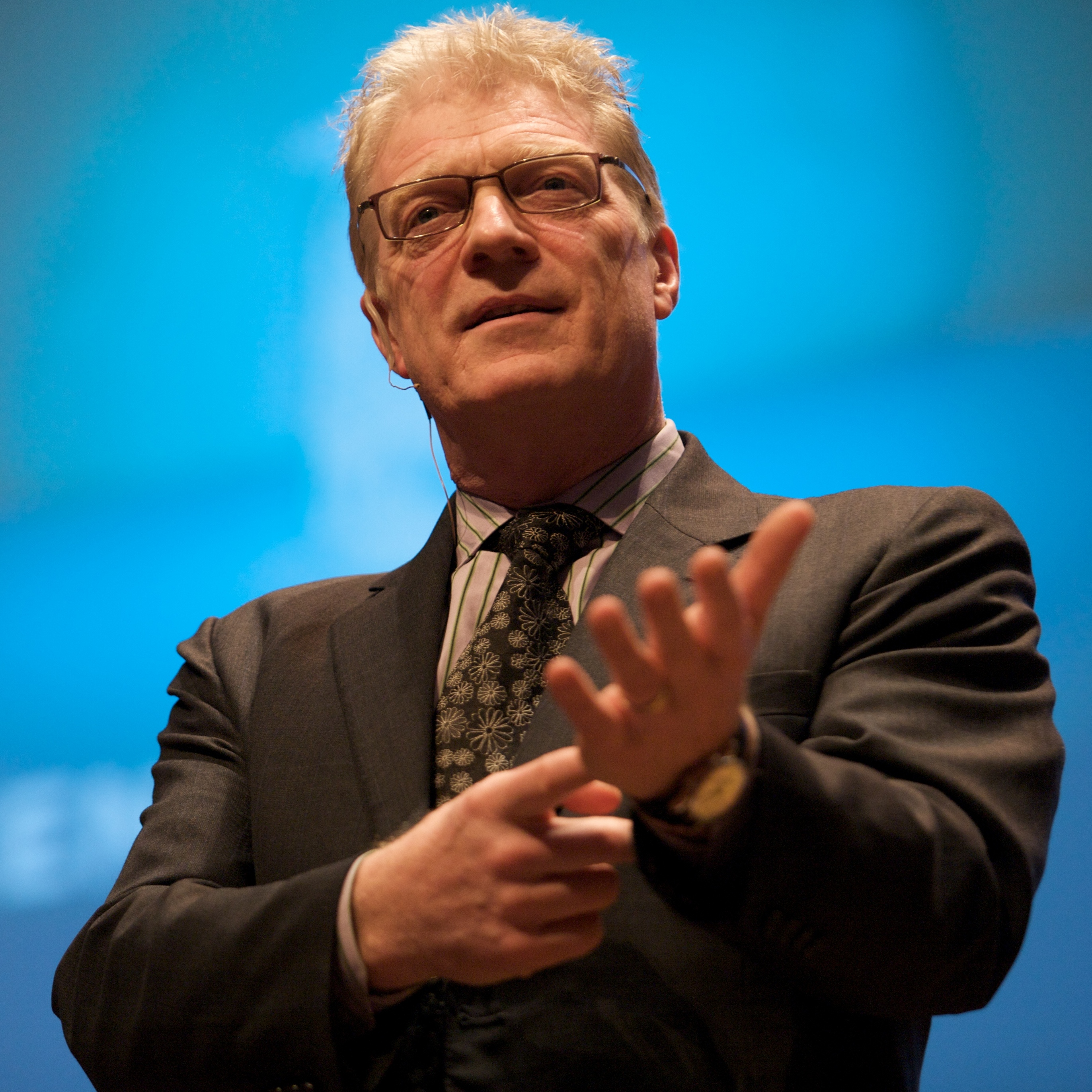 Ken Robinson at the Creative Company Conference, Amsterdam in 2009.